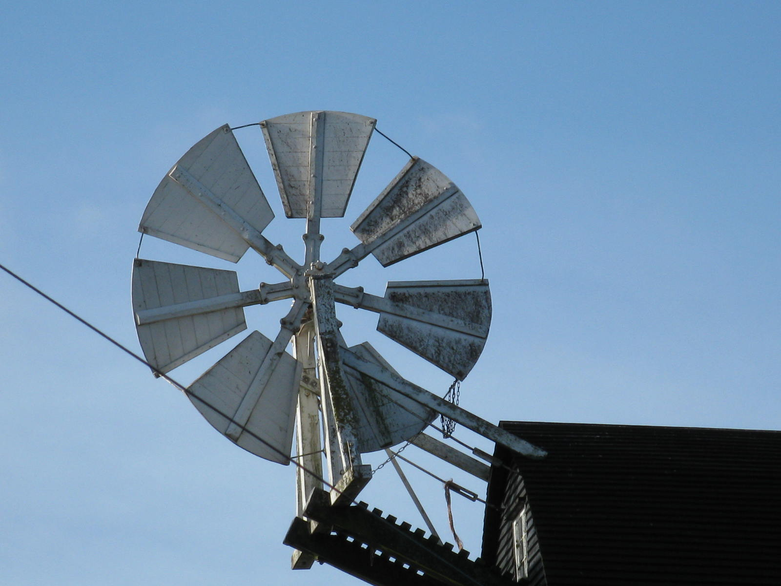 The seven bladed fantail of West Kingsdown Windmill, Kent.